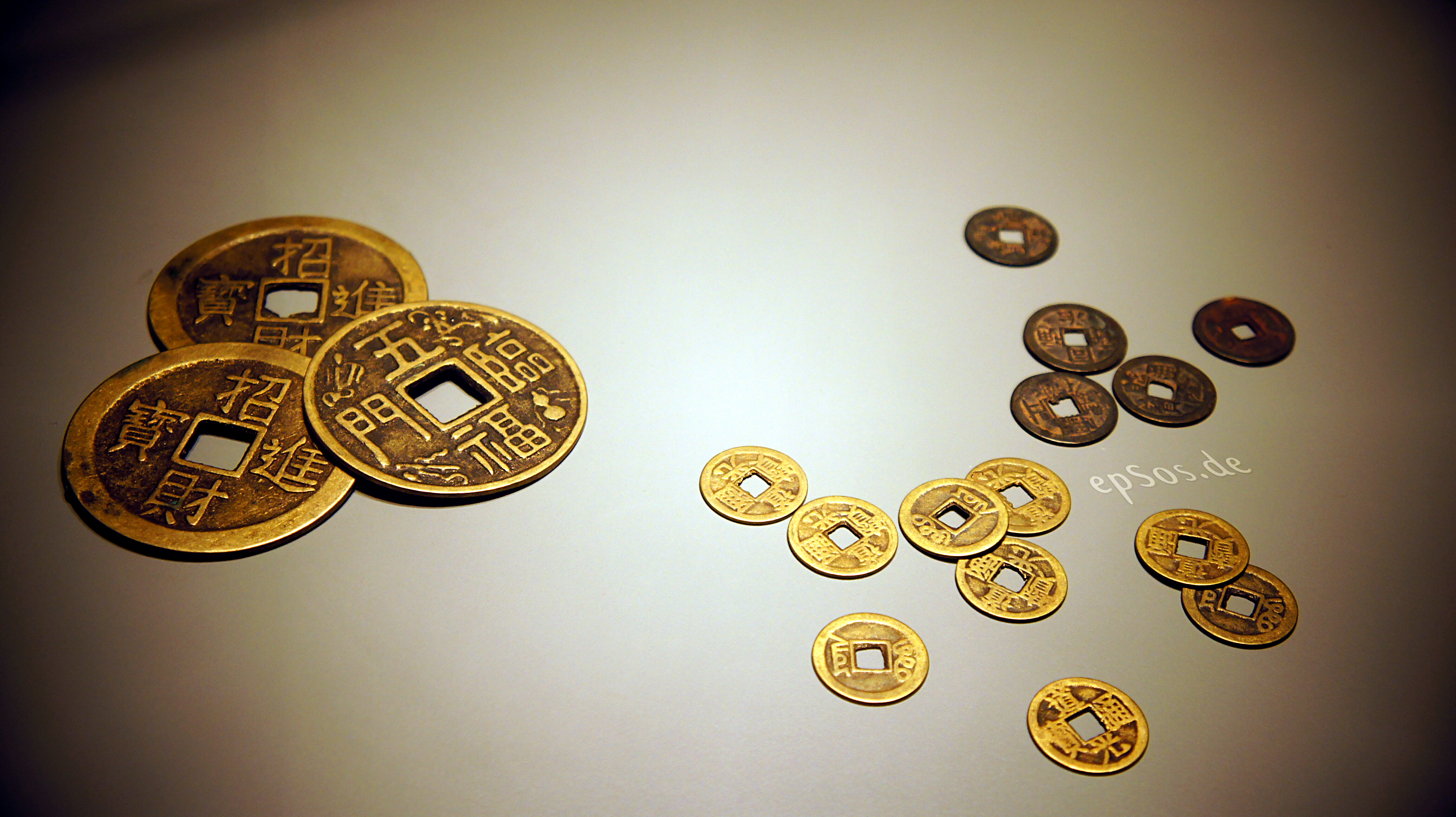 This free picture of the old Chinese golden coins was created by my honest friend epSos.de. This beautiful picture can be used for free, if you link epSos.de as the original author of the image. These are the currency of the Ancient Chinese. They were used as money and they are unique because of squarish holes in the middle of each golden coins. The Chinese characters crafted on the coins can mean good wealth or great prosperity. These phrases are important to the Chinese during those days and are still widely used during the Chinese New Year of today too. The metal coins are now considered as antique coins. Asians collector keep them as antiques and as a good luck charm wherever they go. Some say, these golden coins can even ward off evils! Thank you for sharing this picture with your friends !